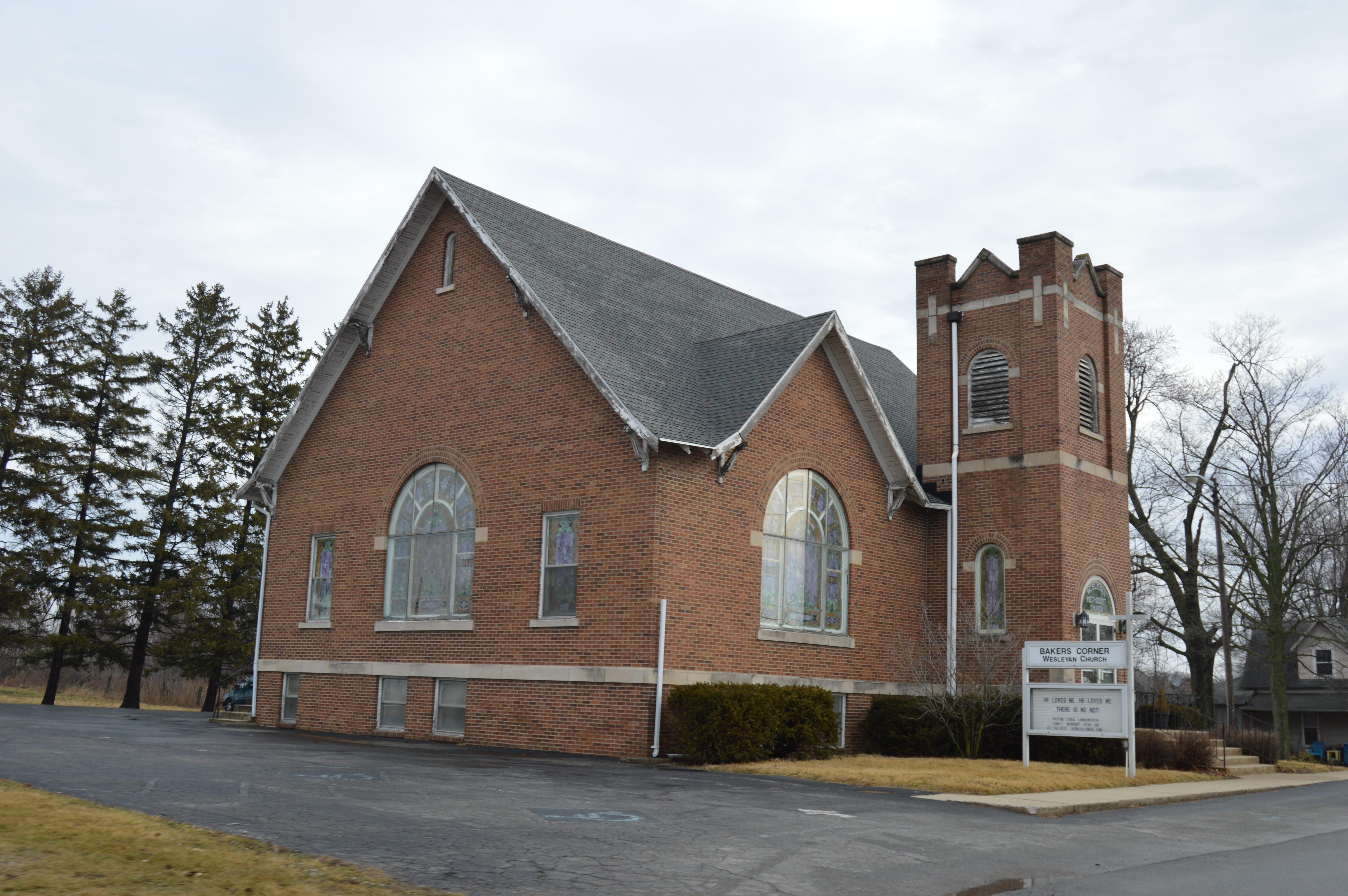 Western side and front of the Bakers Corner Wesleyan Church, located at 1081 E. 236th Street in Bakers Corner, Indiana, United States. It was built in 1916.